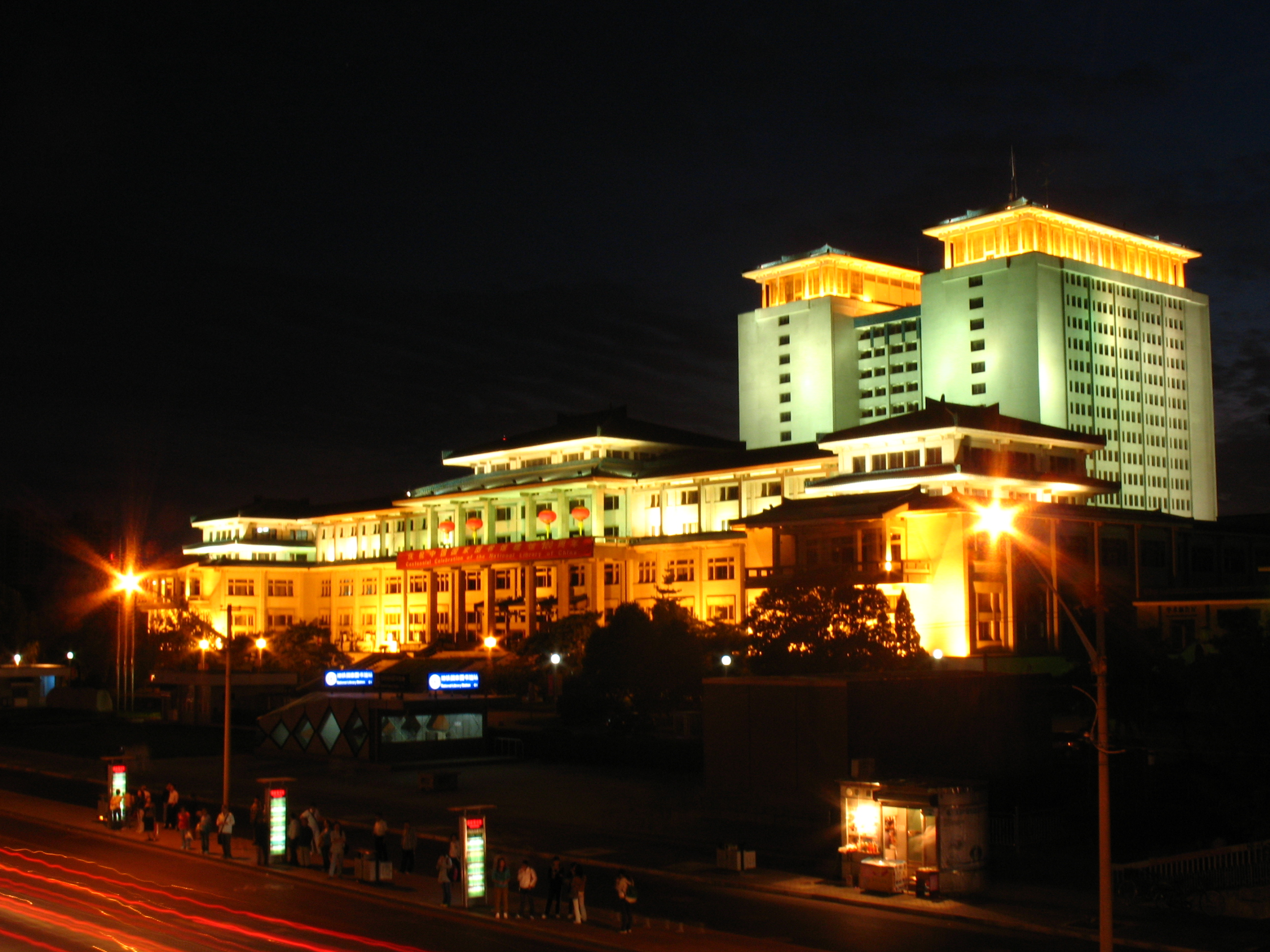 National Library of China - South House (1987) - Night